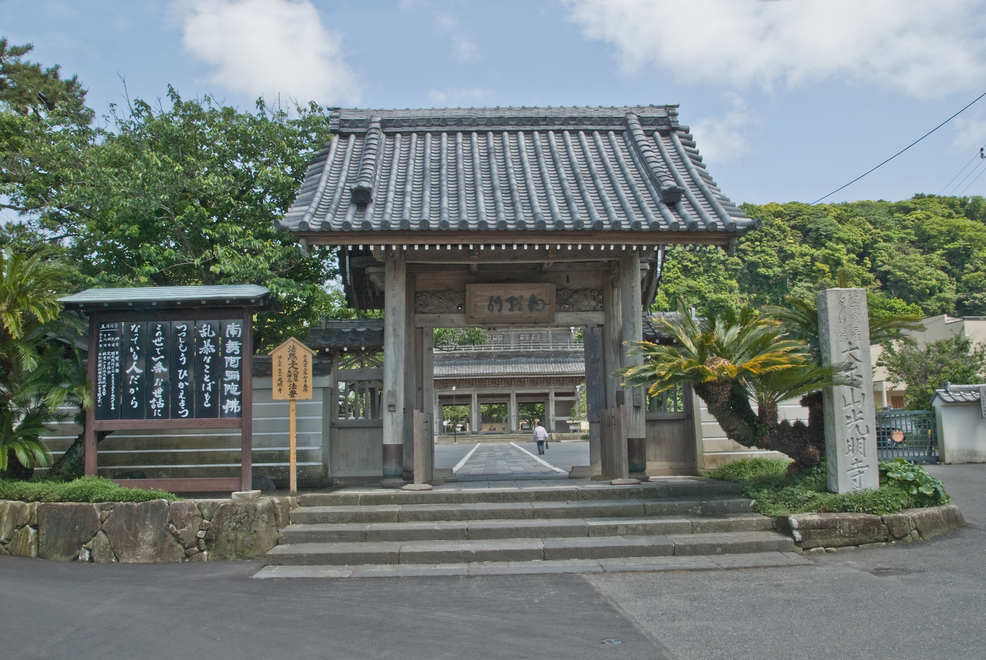 Main Gate, Kōmyō-ji, Kamakura